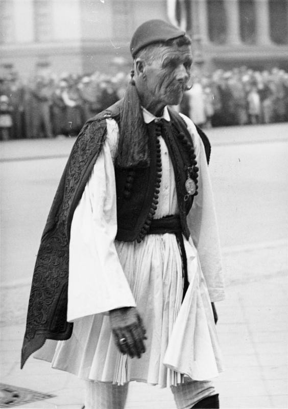 Spiridon Louis at Olympic Games